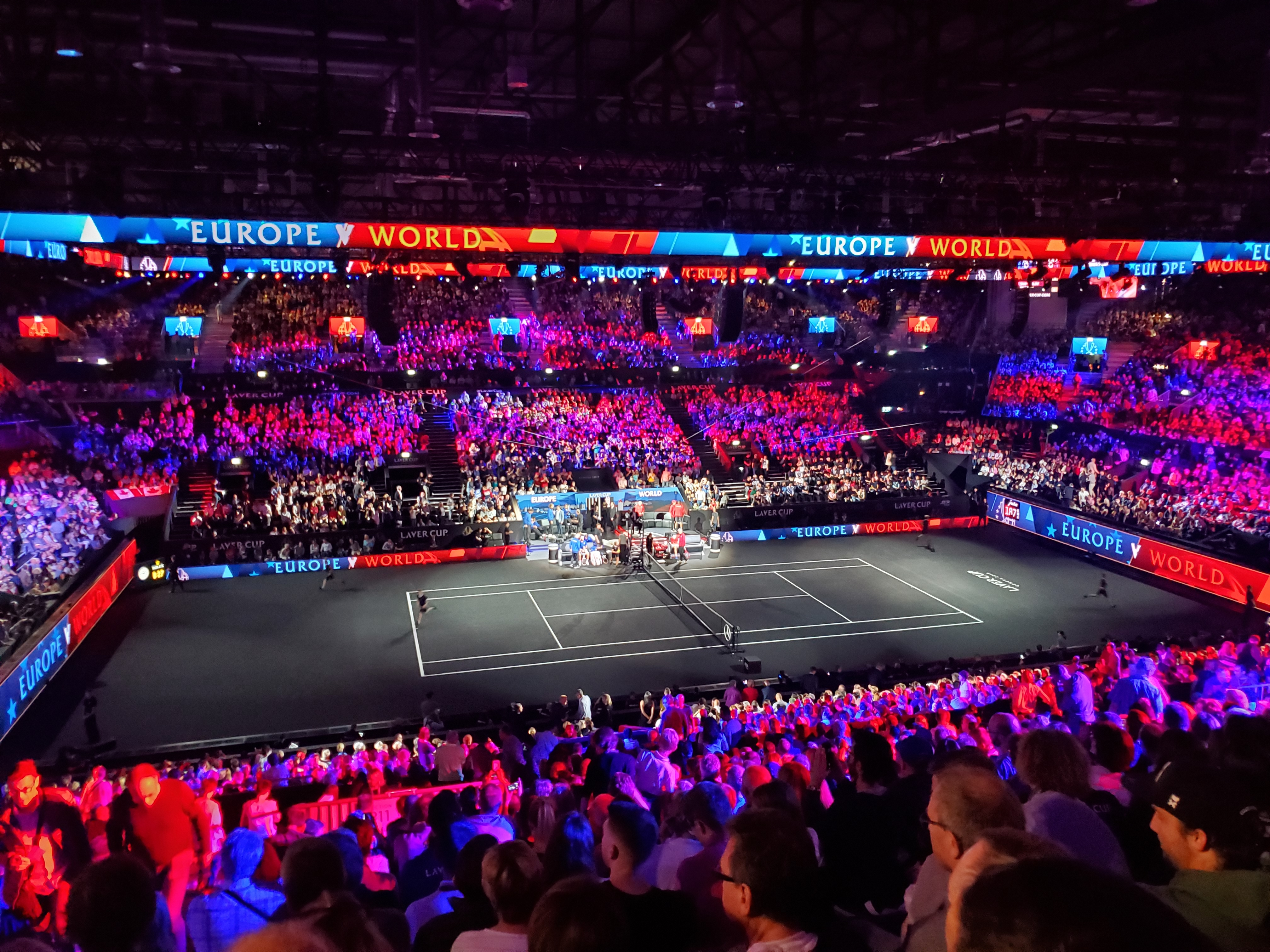 Laver Cup